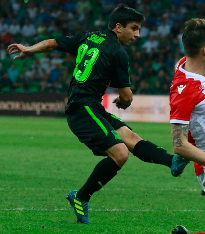 Magomed-Shapi Suleymanov with FC Krasnodar in a UEFA Europa League game against FK Crvena Zvezda.